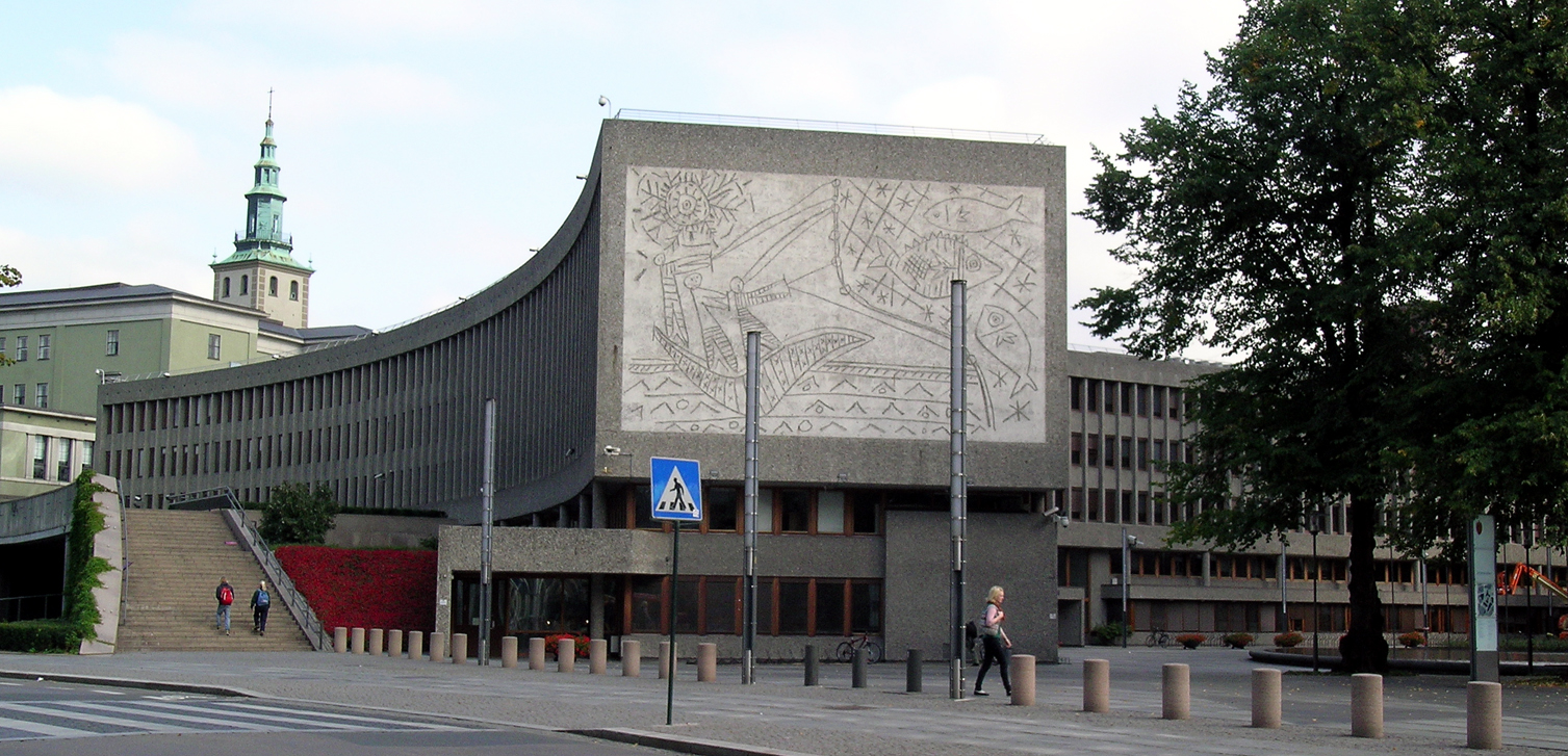 Regjeringskvartalet, Y-blokken. Erected 1970. Architects: Erling and Per Viksjø. Relief by Carl Nesjar after drawings by Pablo Picasso.